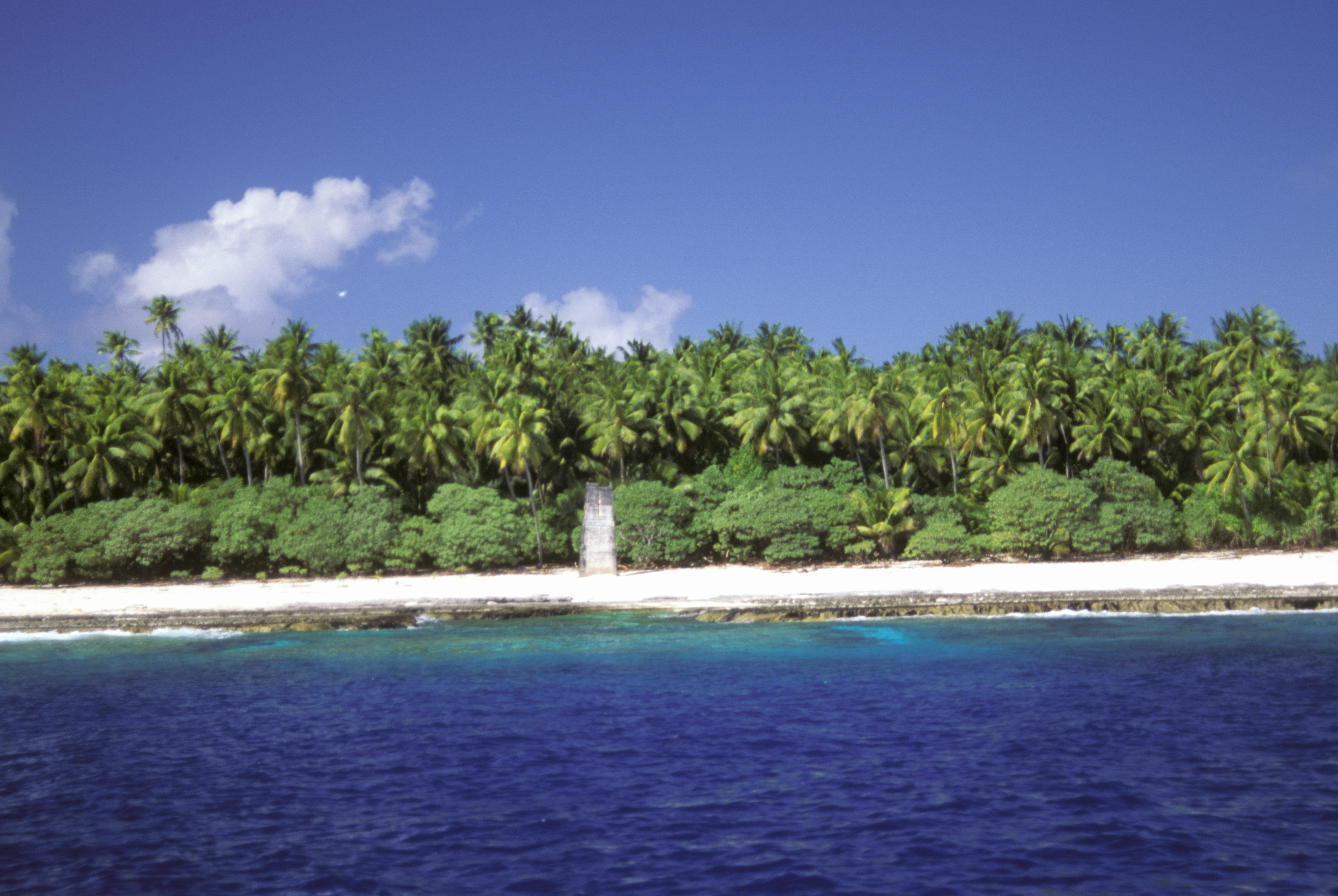 A profile view of Flint Island (Line Islands, Kiribati) from an approaching boat.